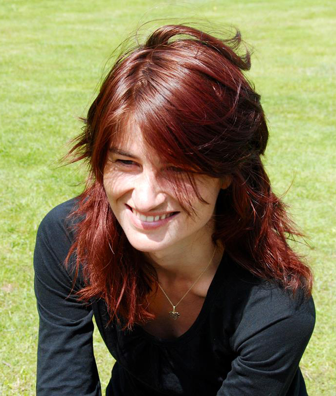 Pavlina Kourkova